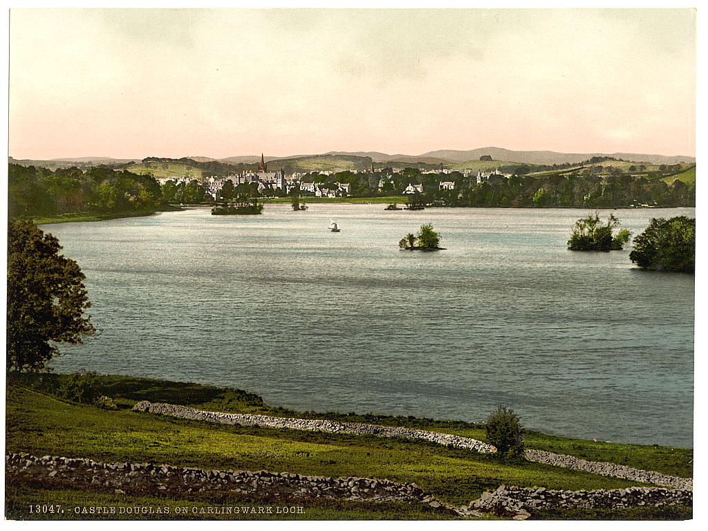 [On Carlingwark Loch, Castle Douglas, Scotland] [between ca. 1890 and ca. 1900]. 1 photomechanical print : photochrom, color. Notes: Title from the Detroit Publishing Co., catalogue J--foreign section. Detroit, Mich. : Detroit Photographic Company, 1905. Print no. "13047". Forms part of: Views of landscape and architecture in Scotland in the Photochrom print collection. Subjects: Scotland--Castle Douglas. Format: Photochrom prints--Color--1890-1900. Rights Info: No known restrictions on reproduction. Repository: Library of Congress, Prints and Photographs Division, Washington, D.C. 20540 USA, Part Of: Views of landscape and architecture in Scotland (DLC) 2001703567 More information about the Photochrom Print Collection is available at Persistent URL: Call Number: LOT 13407, no. 034 [item]